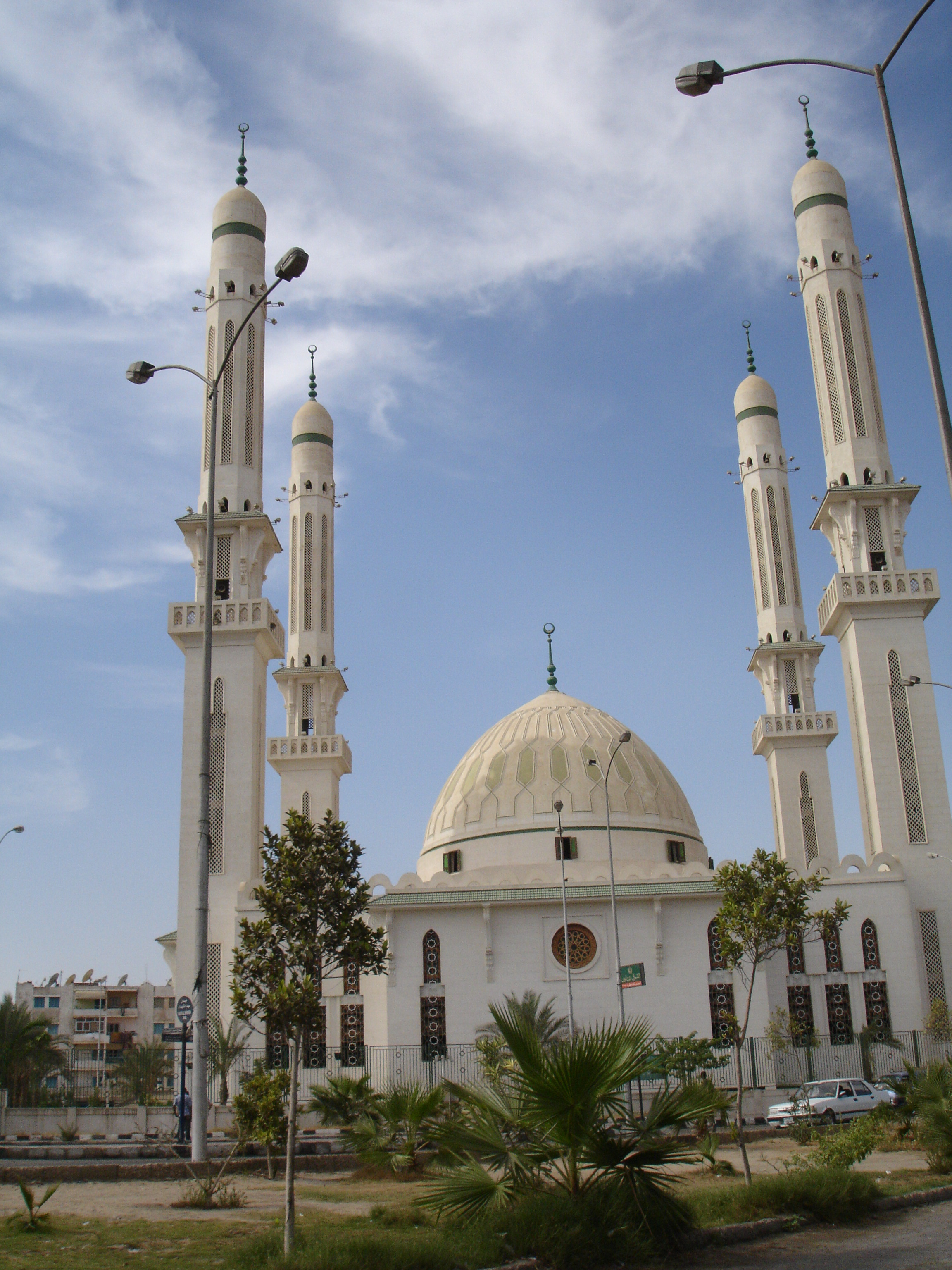 Masjid Hamza, Suez, Egypt. (Produced by myself)